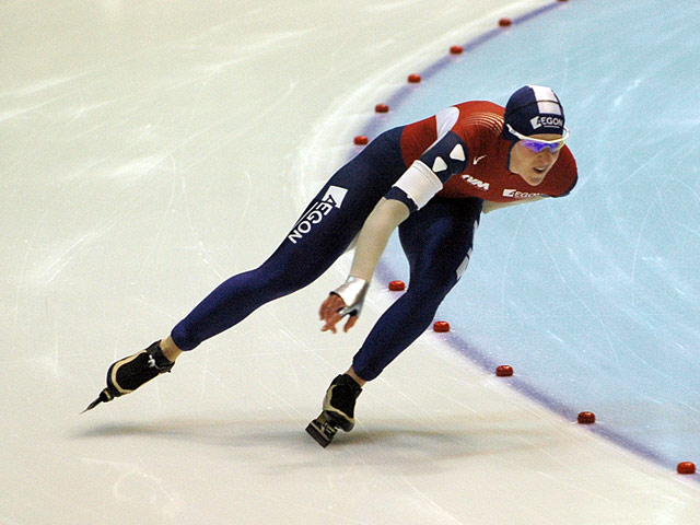 Ireen Wüst at the World Championships 2007 in Heerenveen.